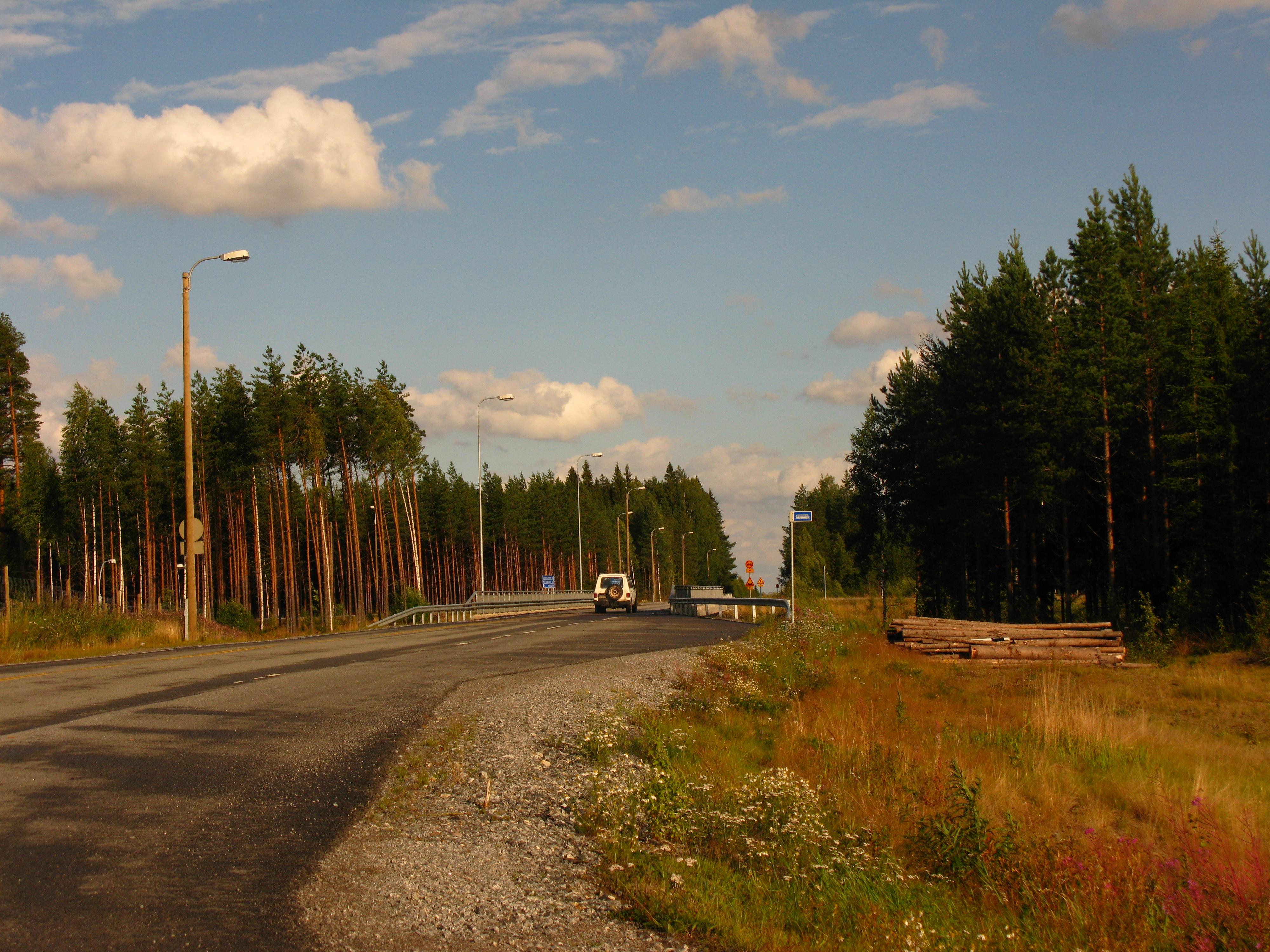 The bridge of the regional road 464 across the main road 5 in Tahkoranta, Joroinen, Finland, seen towards Rantasalmi.